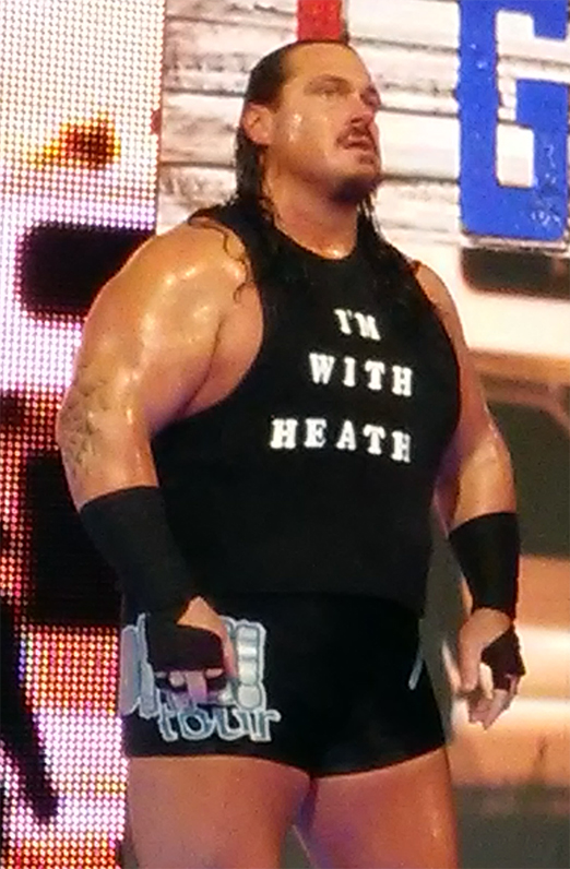 Photo depicts wrestler Rhyno at a WWE Raw event in July 2017.